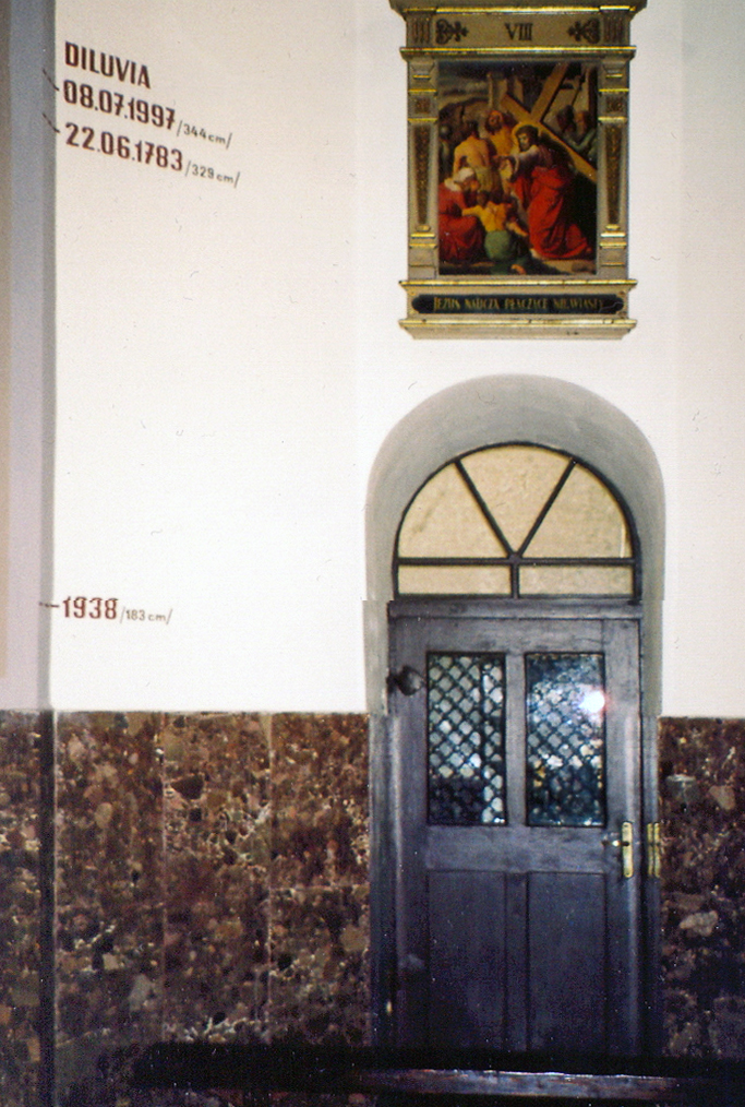 Flood level signs in Kłodzko, Poland.